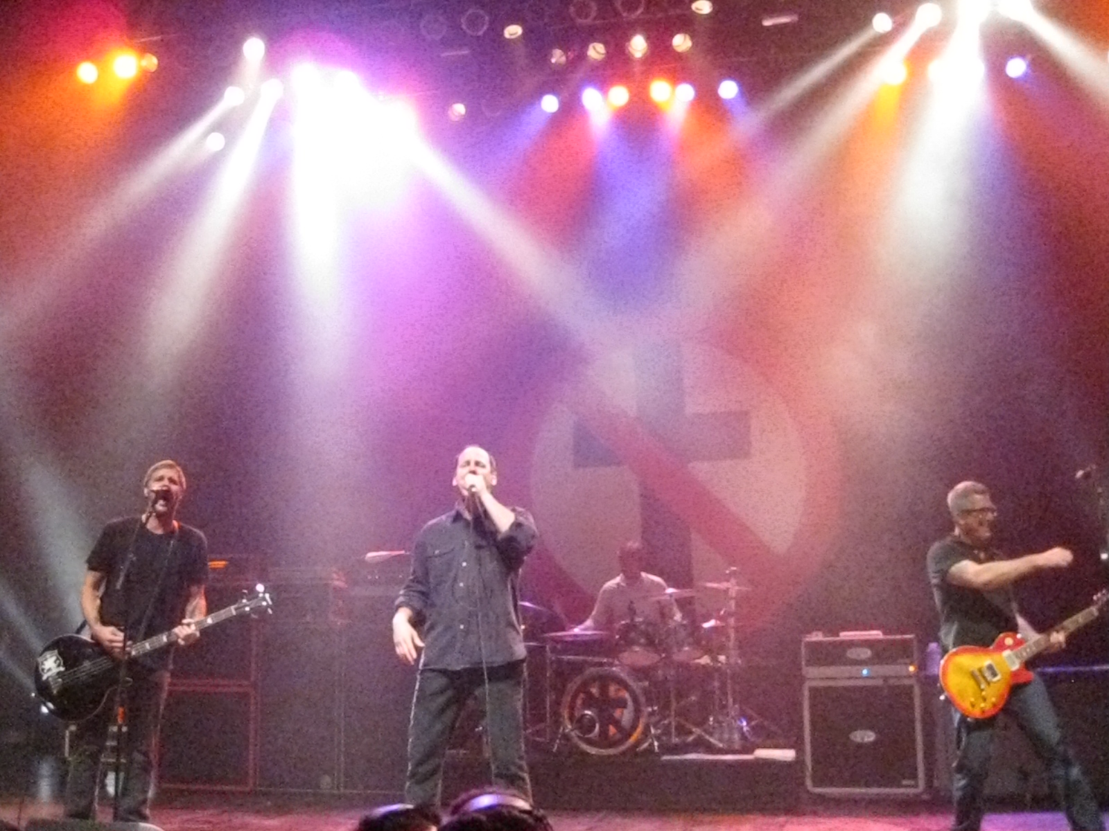 Bad Religion performing December 17, 2011 at the Santa Monica Civic Auditorium in Santa Monica, California as part of the GV30 event. Left to right: bassist Jay Bentley, singer Greg Graffin, drummer Brooks Wackerman, and guitarist Brett Gurewitz.